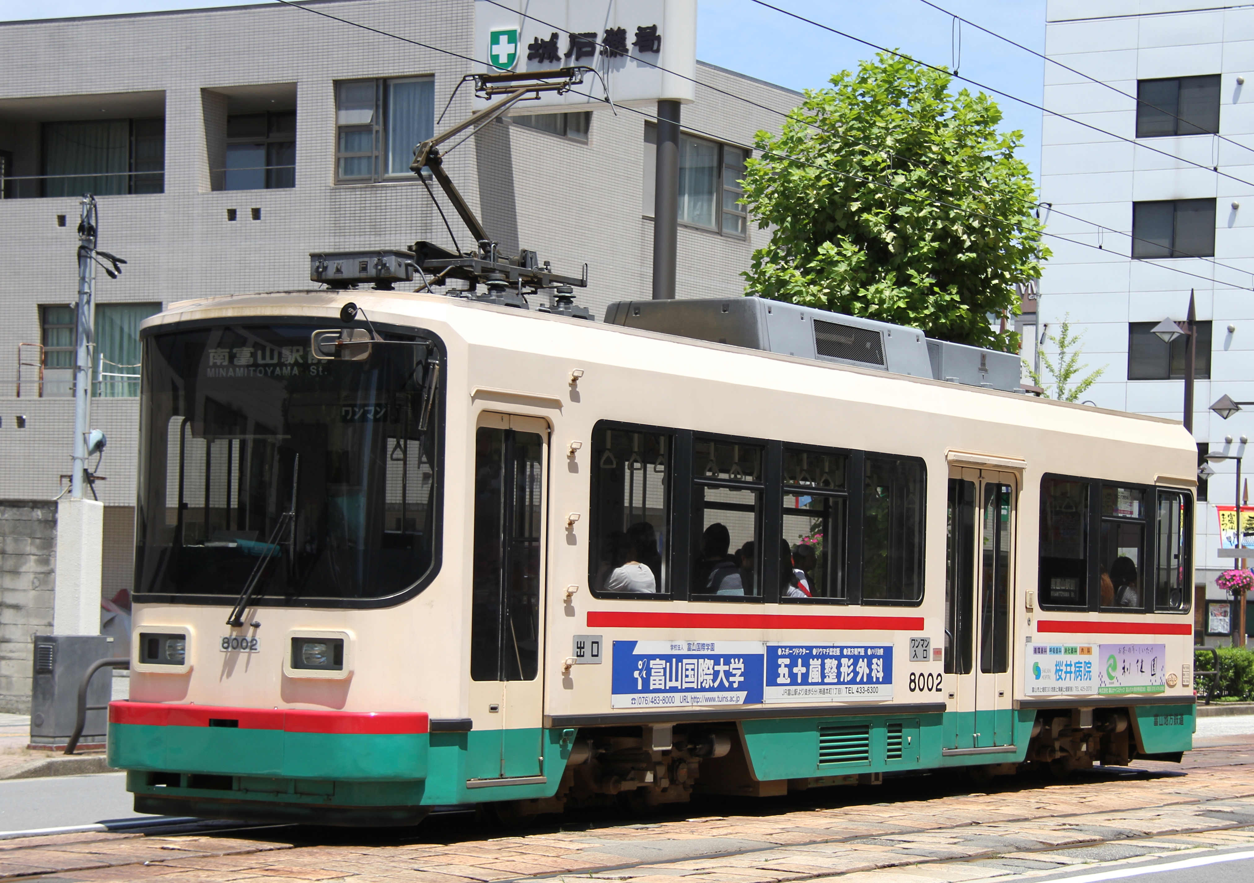 Toyama Chitetsu 8000 series